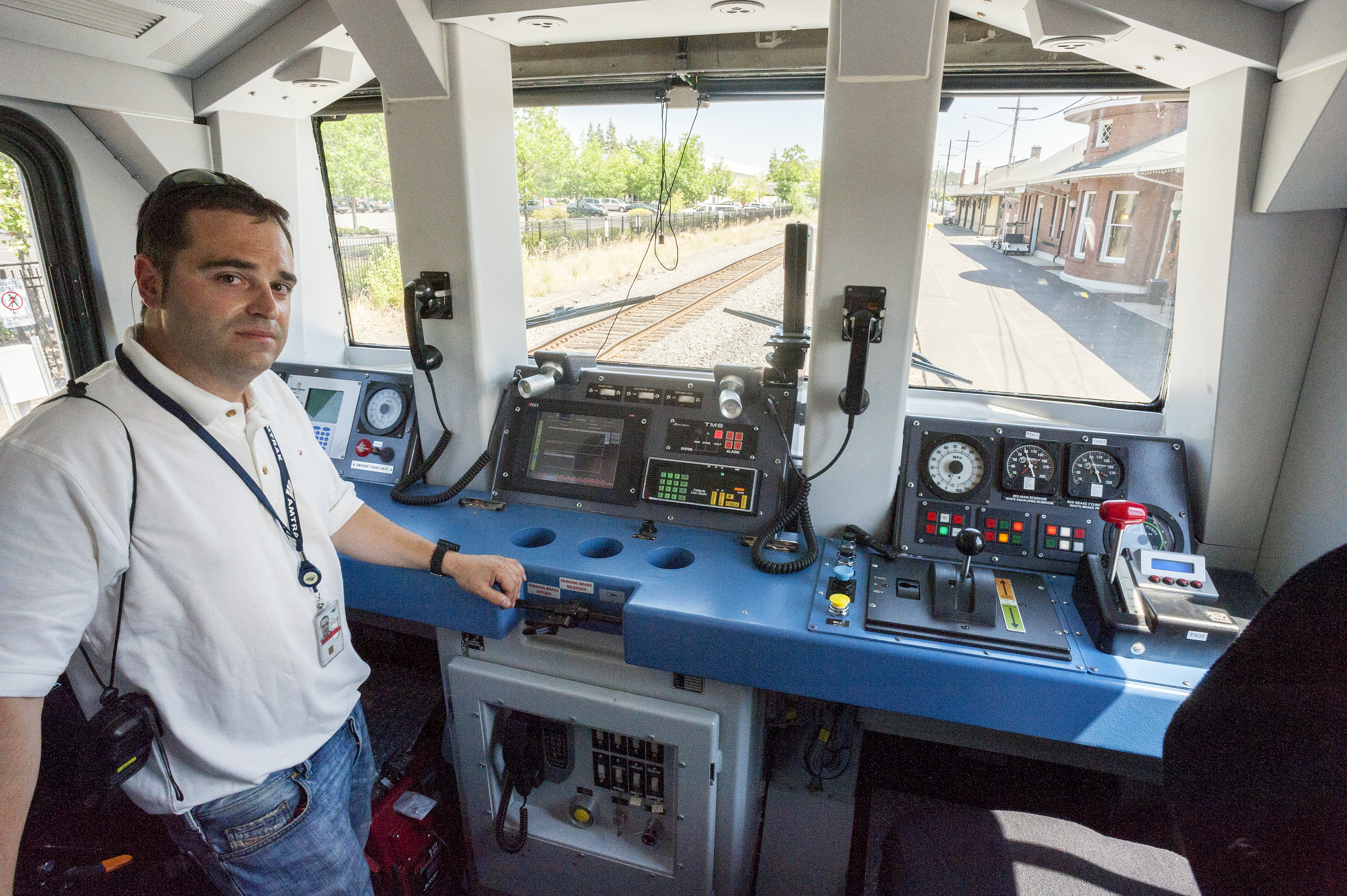 An Amtrak operator stands at the controls of the train.